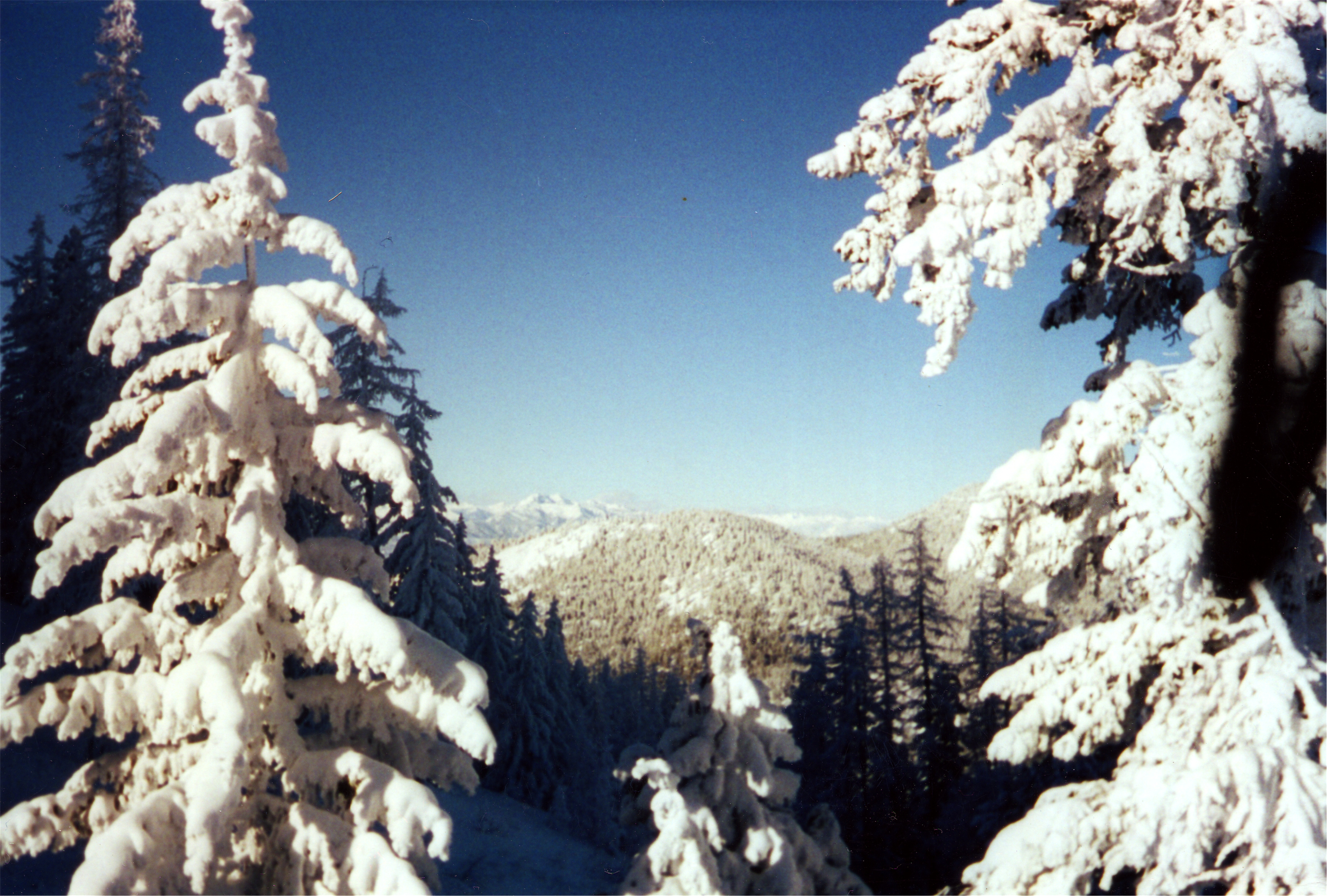 Loup Loup ski area